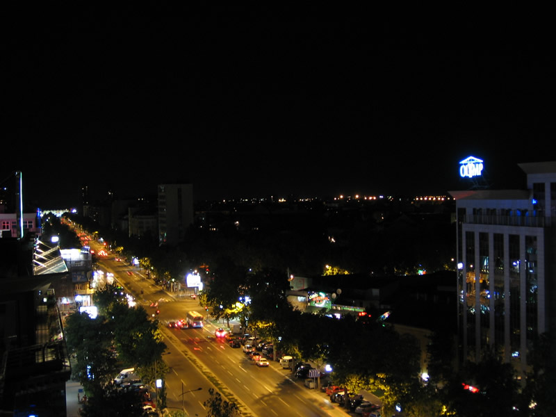 Liberation Bulevard, Novi Sad, Serbia